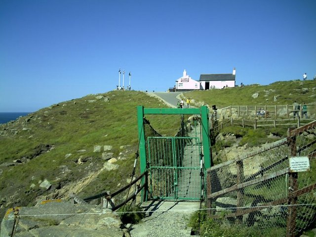 First and Last Inn, Land's End, Cornwall